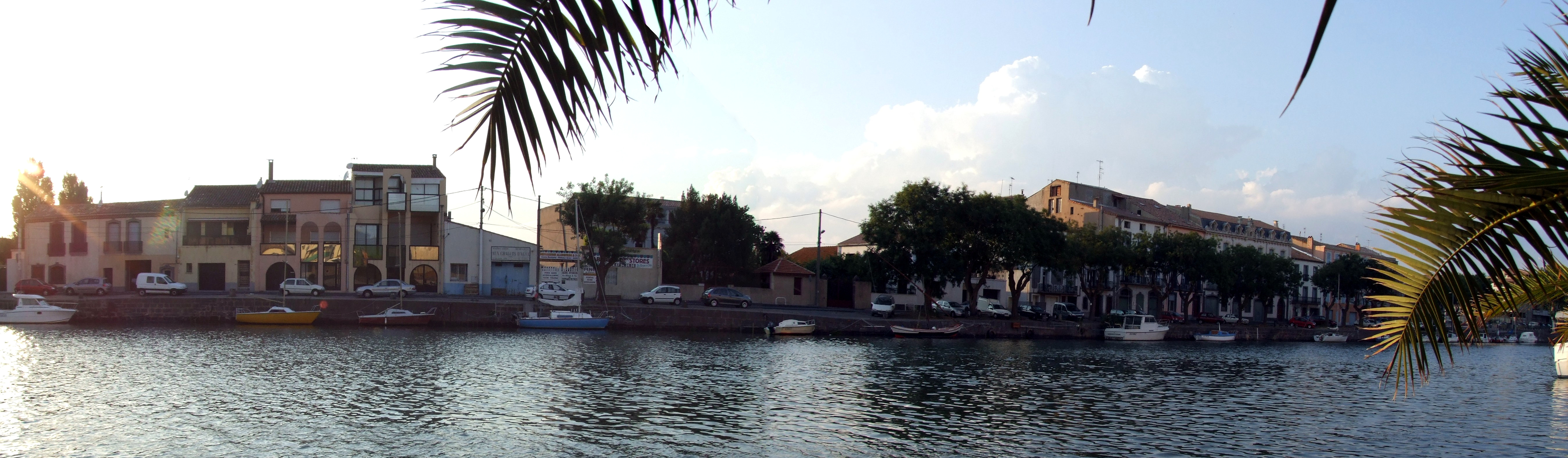 Agde, France (hugin panorama of two selfmade photos, Fuji S9500, Aug 2006)